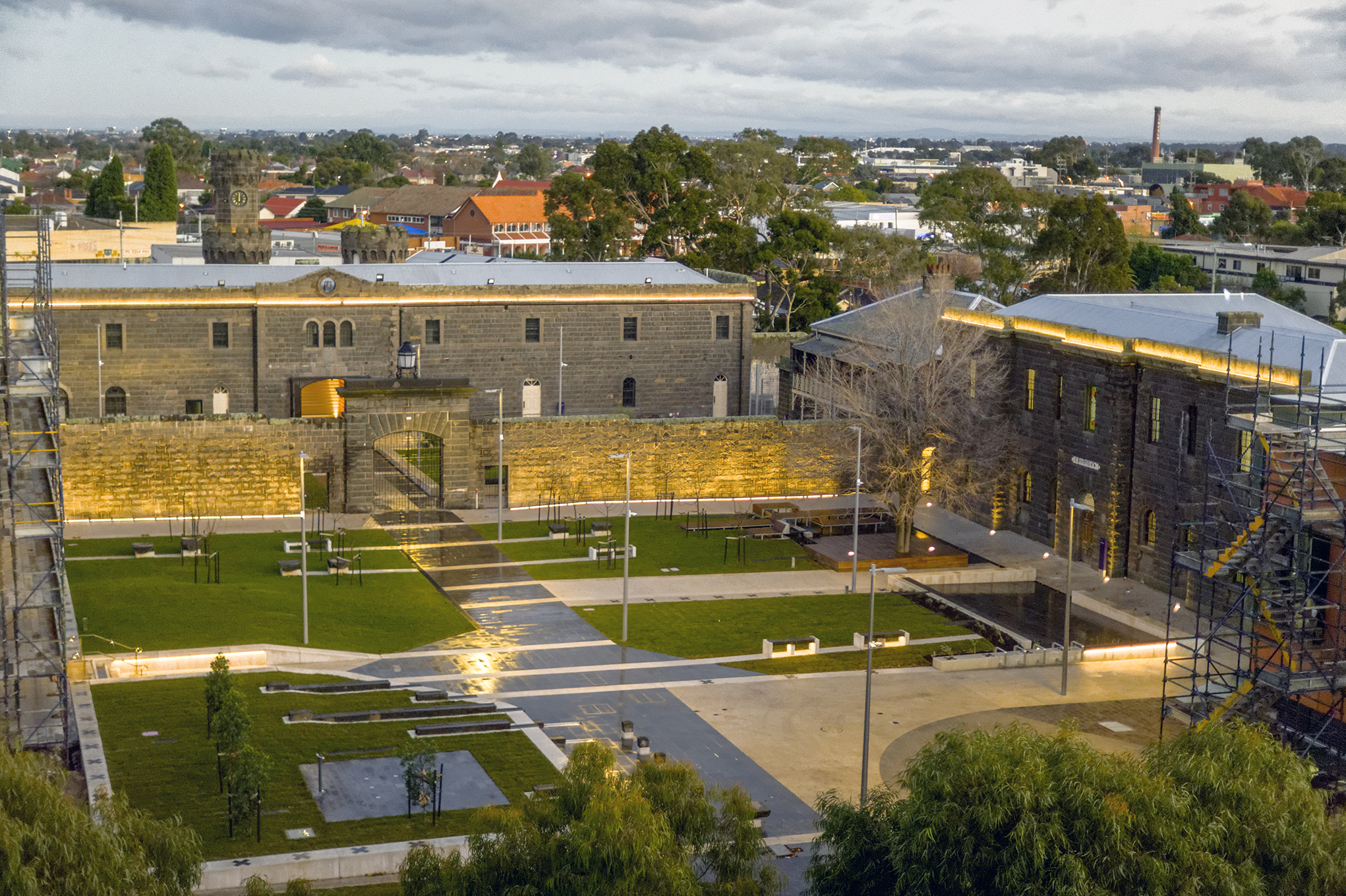 Pentridge Prison Redevelopment 2020